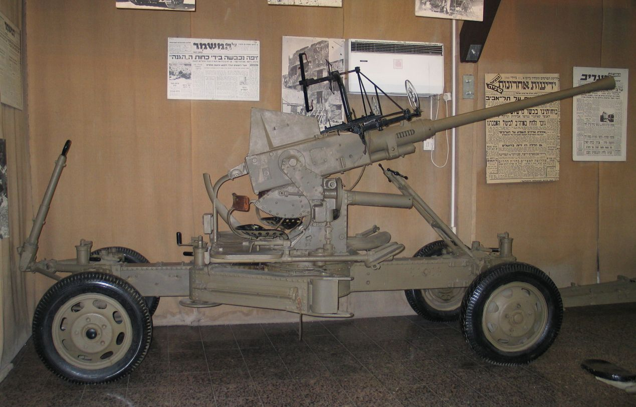 Description: Bofors 40 mm anti-aircraft gun in Batey ha-Osef Museum, Tel Aviv, Israel. 2005. Source: Photo by me, User:Bukvoed.